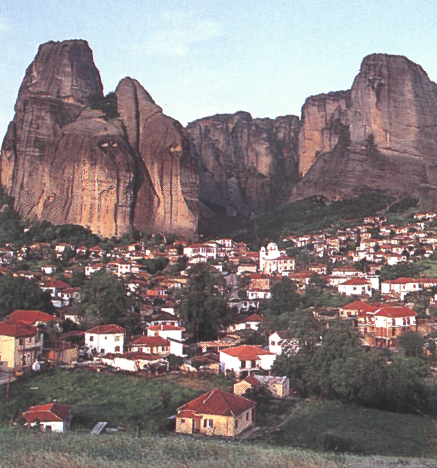 Kastraki village